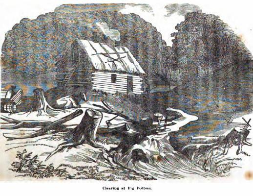 Drawing of the blockhouse at Big Bottom on the Muskingum River upriver from Marietta, Ohio, the site of the massacre of January 2, 1791. From the book of historical fiction by Henry C. Watson: Nights in a Block-House, J. B. Lipincott and Co., Philadelphia, Pennsylvania (1856). ColWilliam (talk) 02:19, 6 February 2009 (UTC)